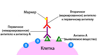 Diagram created by Viki Male, 14th September 2005, to illustrate indirect immunohistochemical staining.